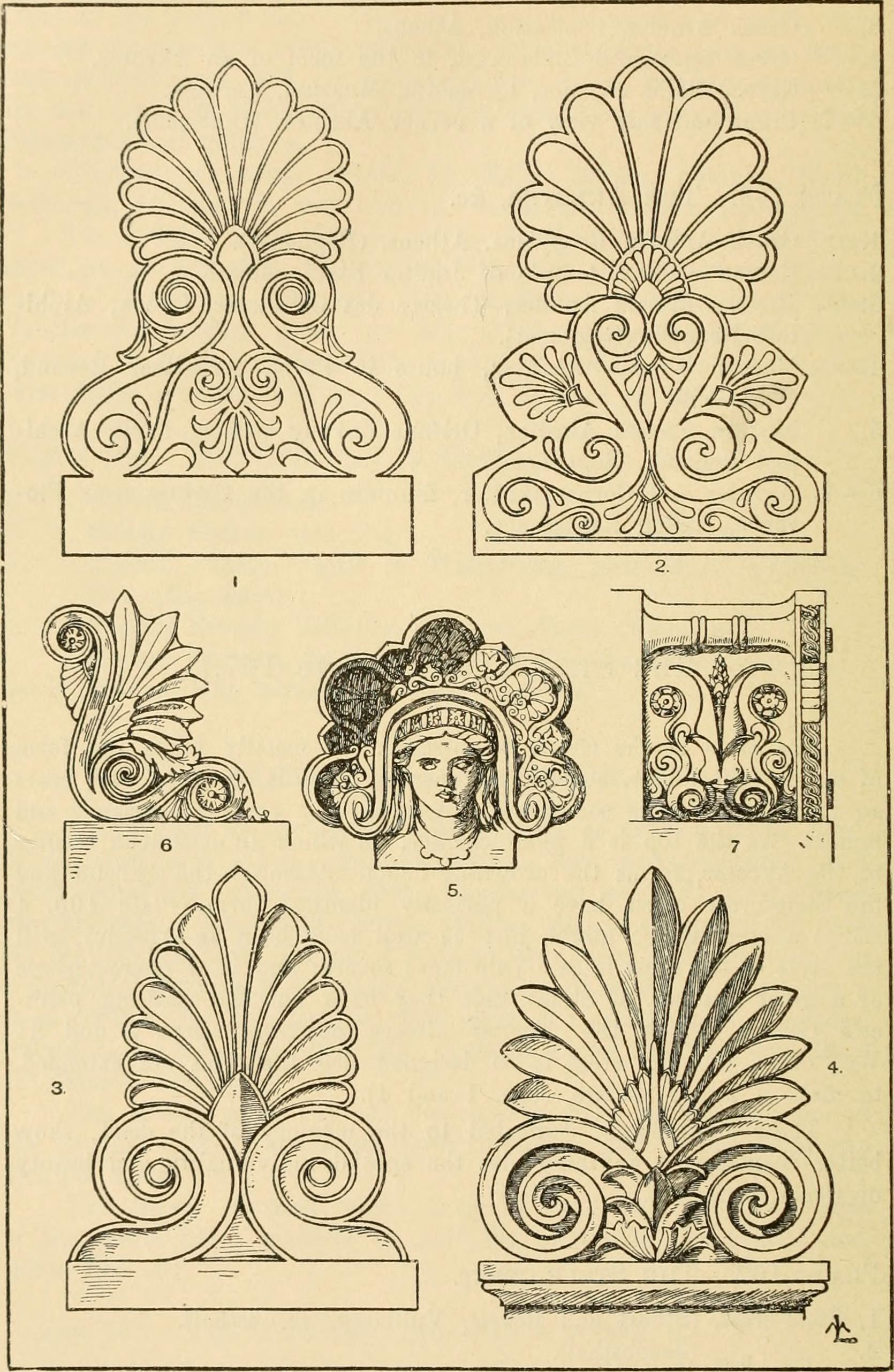 Title: Handbook of ornament; a grammar of art, industrial and architectural designing in all its branches, for practical as well as theoretical use Year: 1900 (1900s) Authors: Meyer, Franz Sales, 1849- Subjects: Decoration and ornament Art objects Publisher: New York, B. Hessling Text Appearing Before Image: e top; and bearsan inscription. It is sometimes decorated with rosettes, garlands andfigures. At the top is a plain cornice, on which an ornament, similarto the Akroter, forms the crowning finish. Although the Akroter andthe Stele-crest often have a perfectly identical form (Plate 105. 4shows a crest which might just as well have been an Antefix), stillthe style of the crest is as a rule more severe; and it is characteristicof a great number of Steles that they have not the striking palm-ette Centre, which the Akroter always possesses, (figs. 2 and 3).Very often, too, the crest is so designed that the sides are extended,to make a larger feature, (figs. 1 and 4). These Monuments, dedicated to the memory of the dead, showbetter than almost anything else the special individuality and beautyof Greek ornament. Plate 107. The Stele-crest. 1. Stele-crest, (Stuart and Revett, Vulliamy, Jacobsthal). 2. „ „ (Jacobsthal). 3. „ „ (Lart pour tous). 4. „ „ (Lifevre). 168 FREE ORNAMENTS. Text Appearing After Image: Plate 105. The Akroter, and the Antefix. FEEE ORNAMENTS. 169